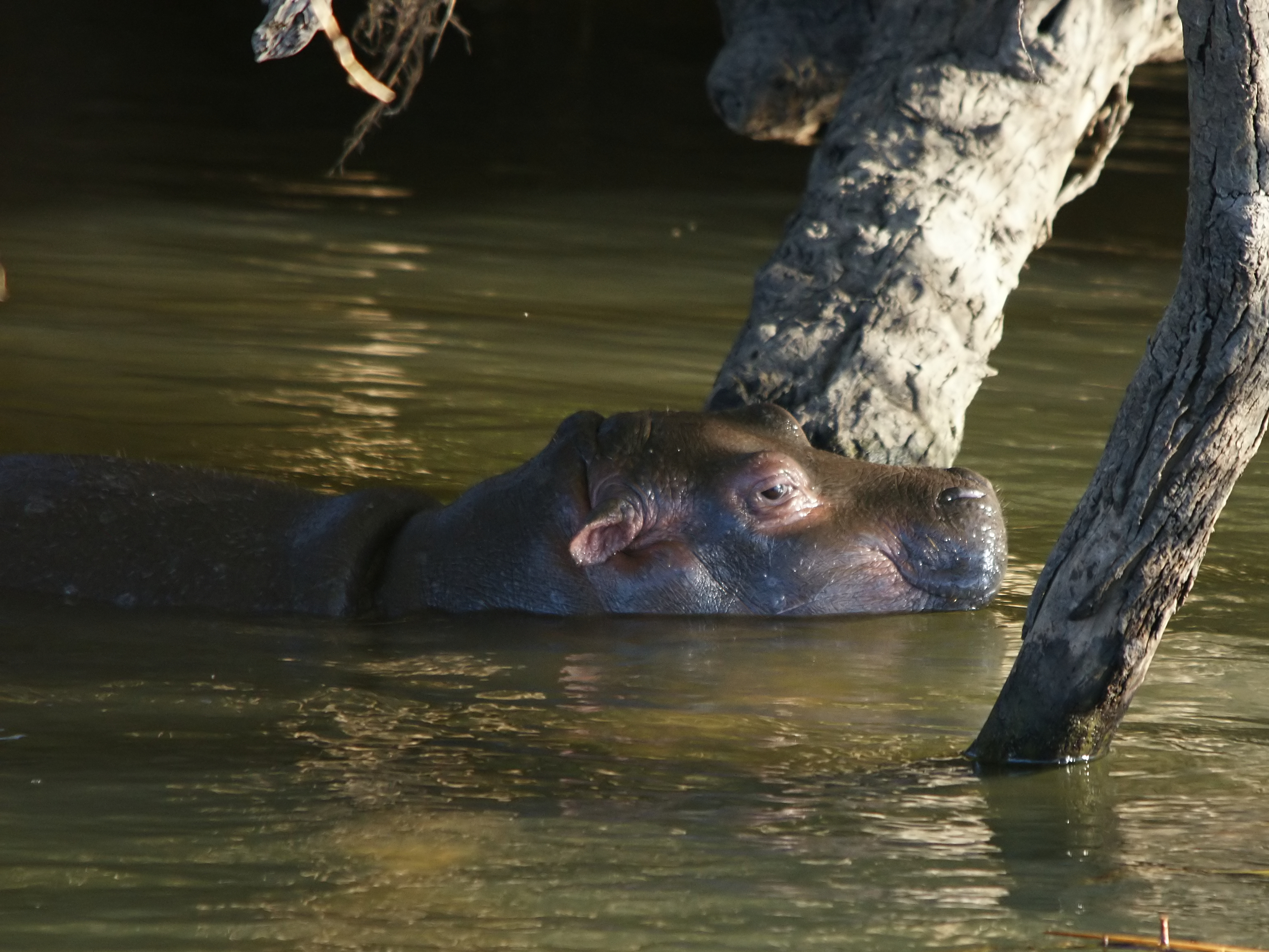 Hippo calf in the Zambesi near Mosi-oa-Tunya National Park, Livingstone, Zambia.